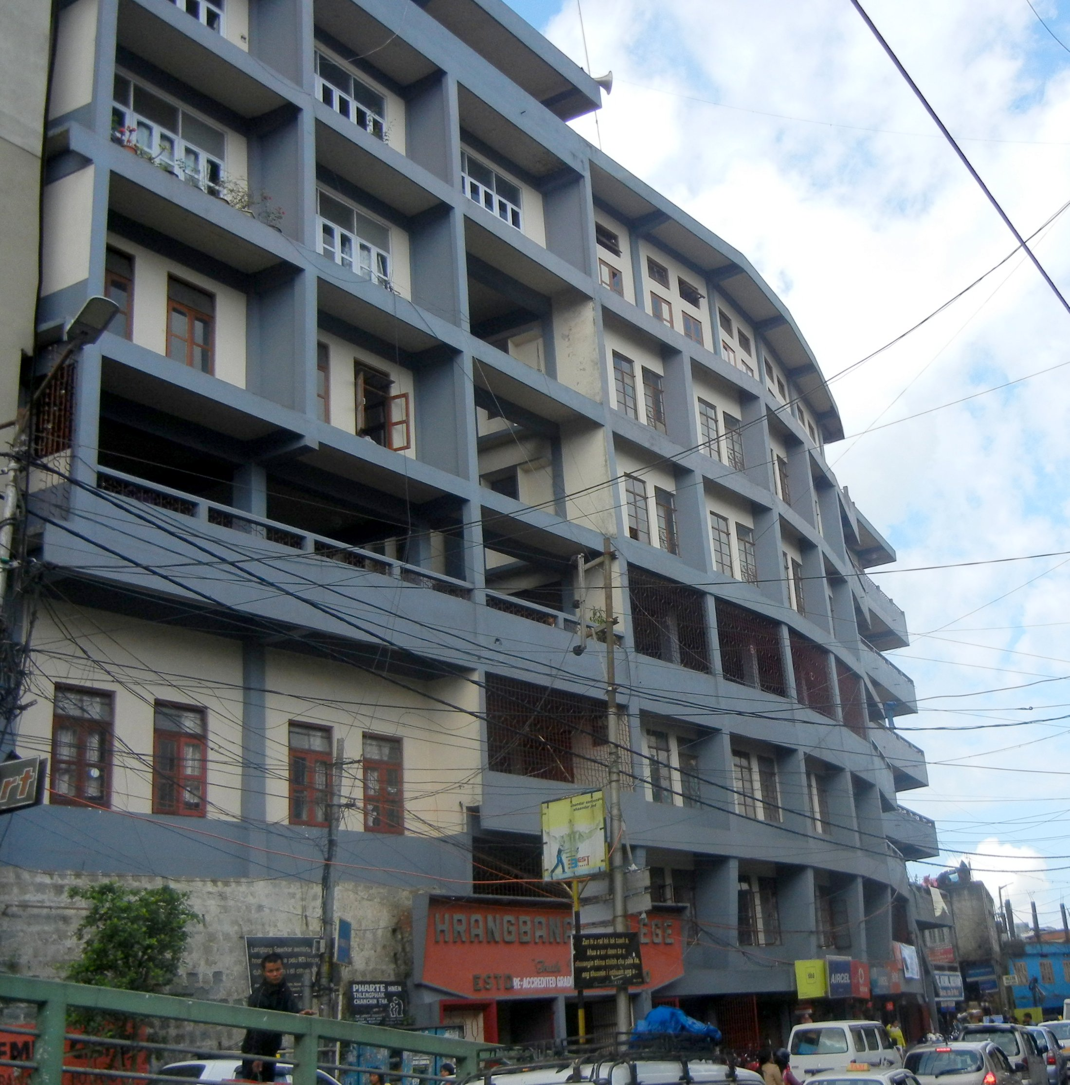 Hrangbana College Building